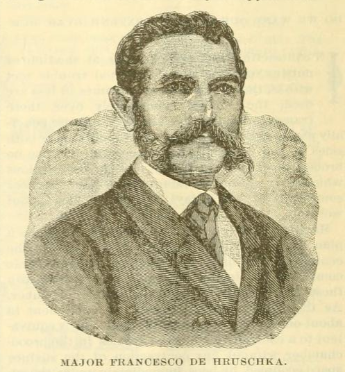 Francesco De Hruschka - Gleanings in Bee Culture